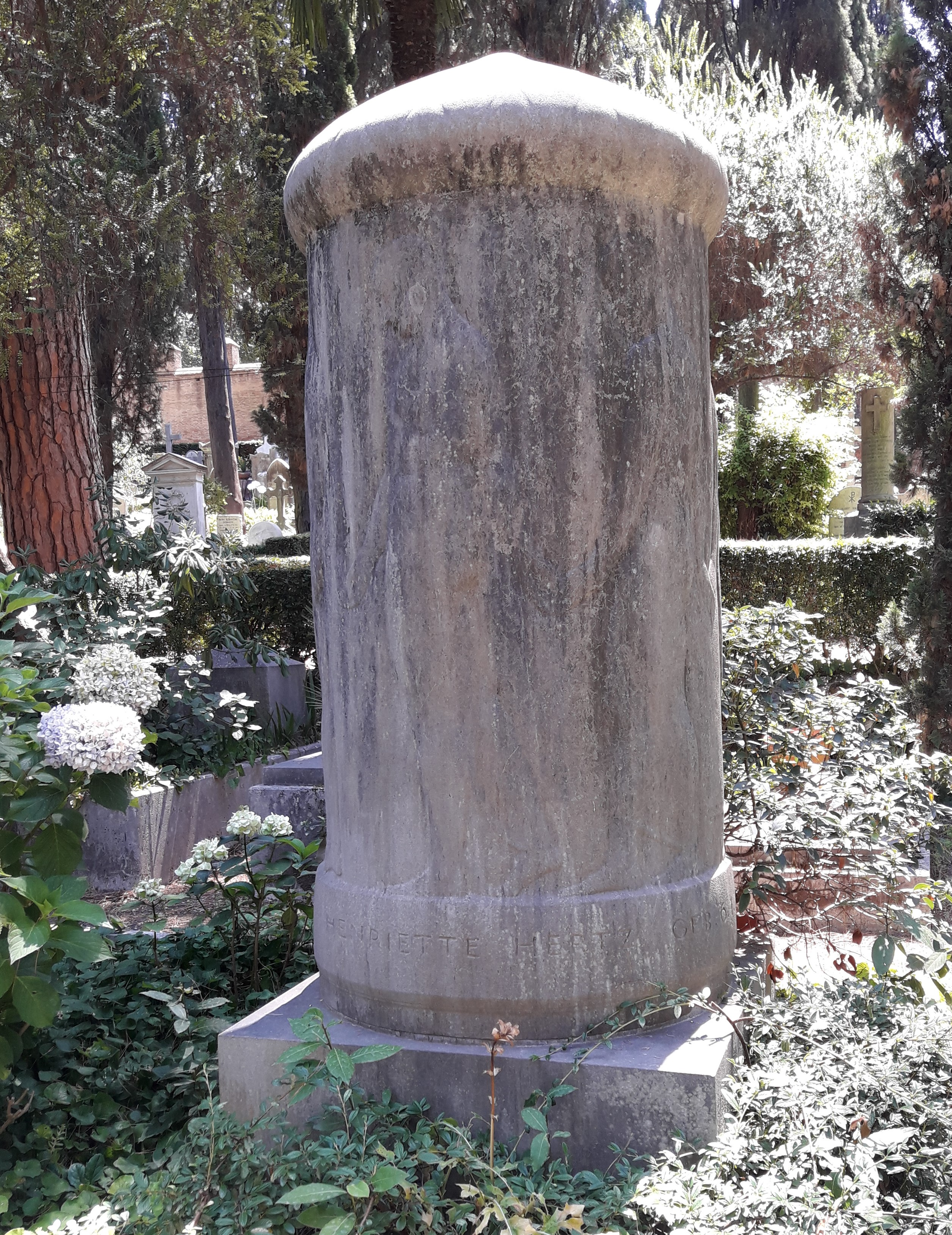 Grave of Henriette Hertz, Cimitero acattolico, Rome 2017